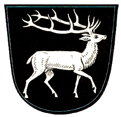 Coat of arms of Hirschberg (Rhein-Lahn-Kreis)